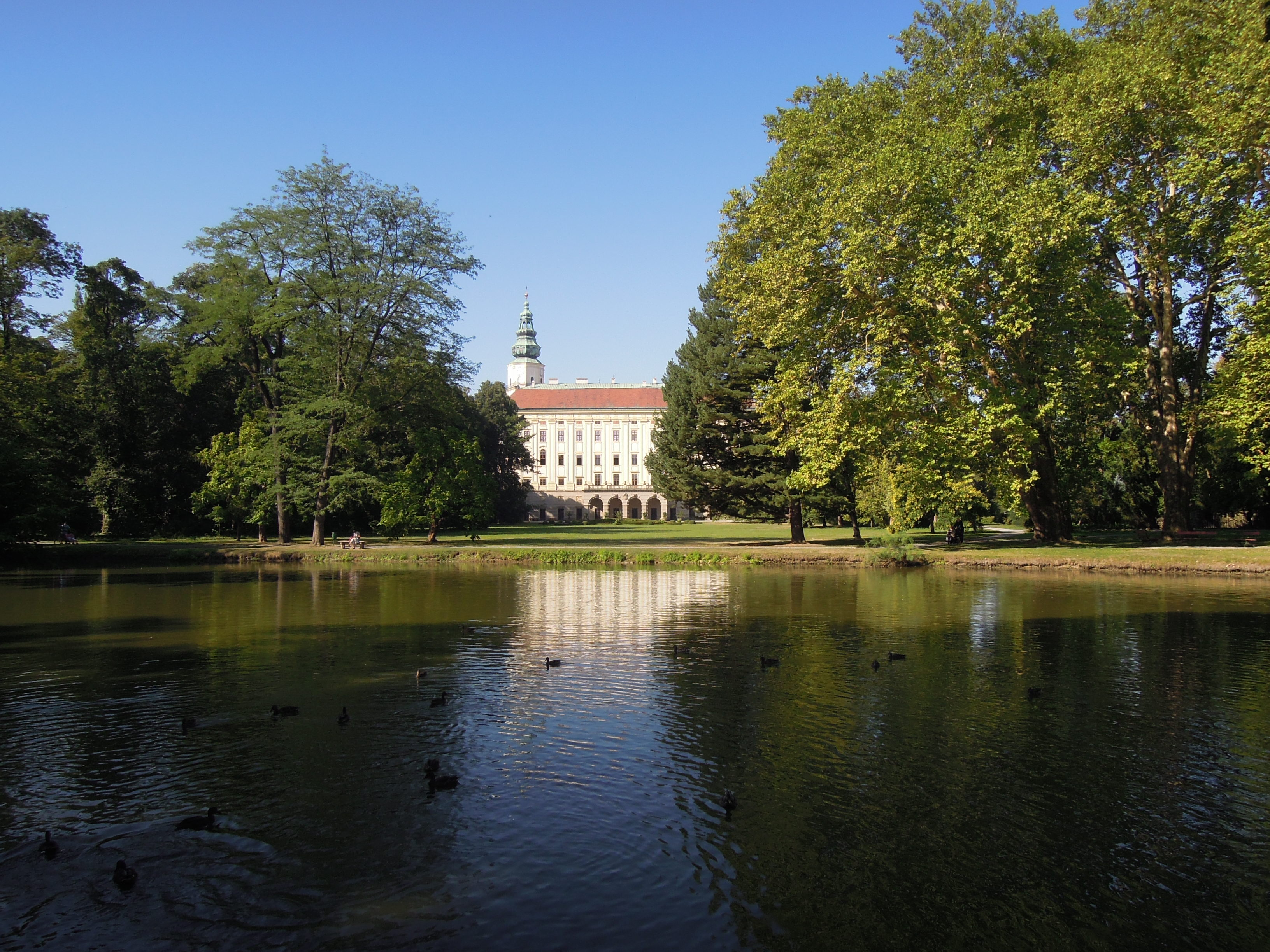 Archbishop's Château in Kroměříž, Kroměříž District, Zlín Region, Czech Republic